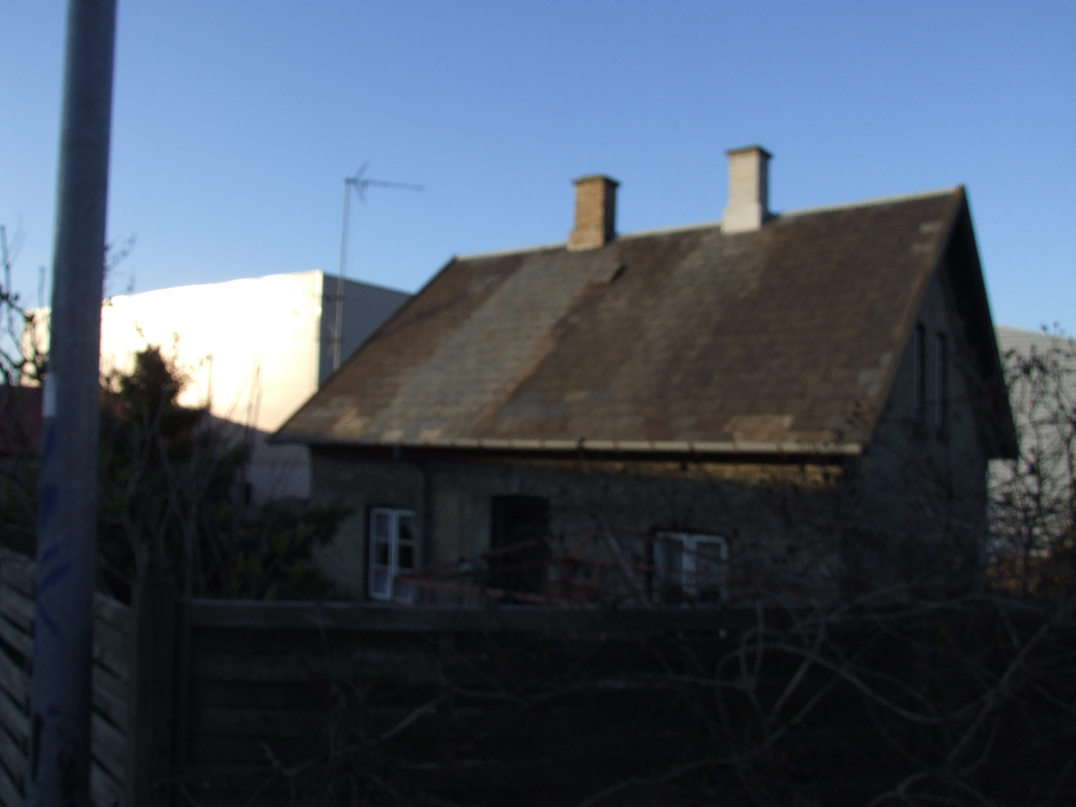 traditional flagman house in Nørrebro district in Copenhagen